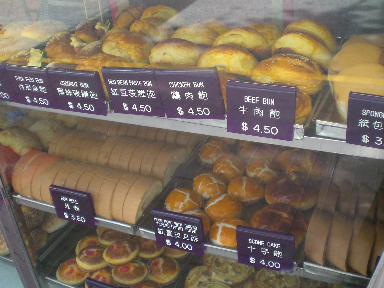 跑馬地成和道祥勝茶餐廳